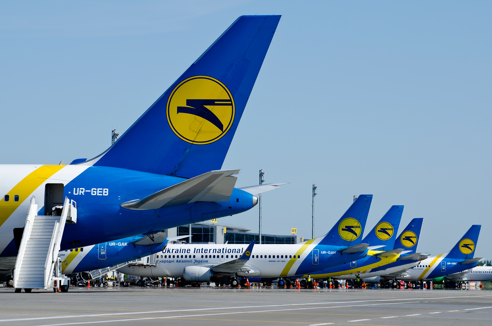 Ukraine International Airlines aircraft at Boryspil Airport